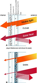 Diagram explaining how electrchromic windows function.